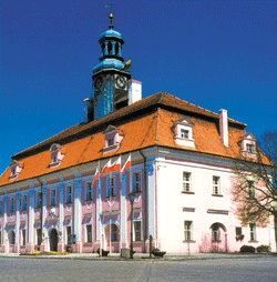 Rawicz, Town hall